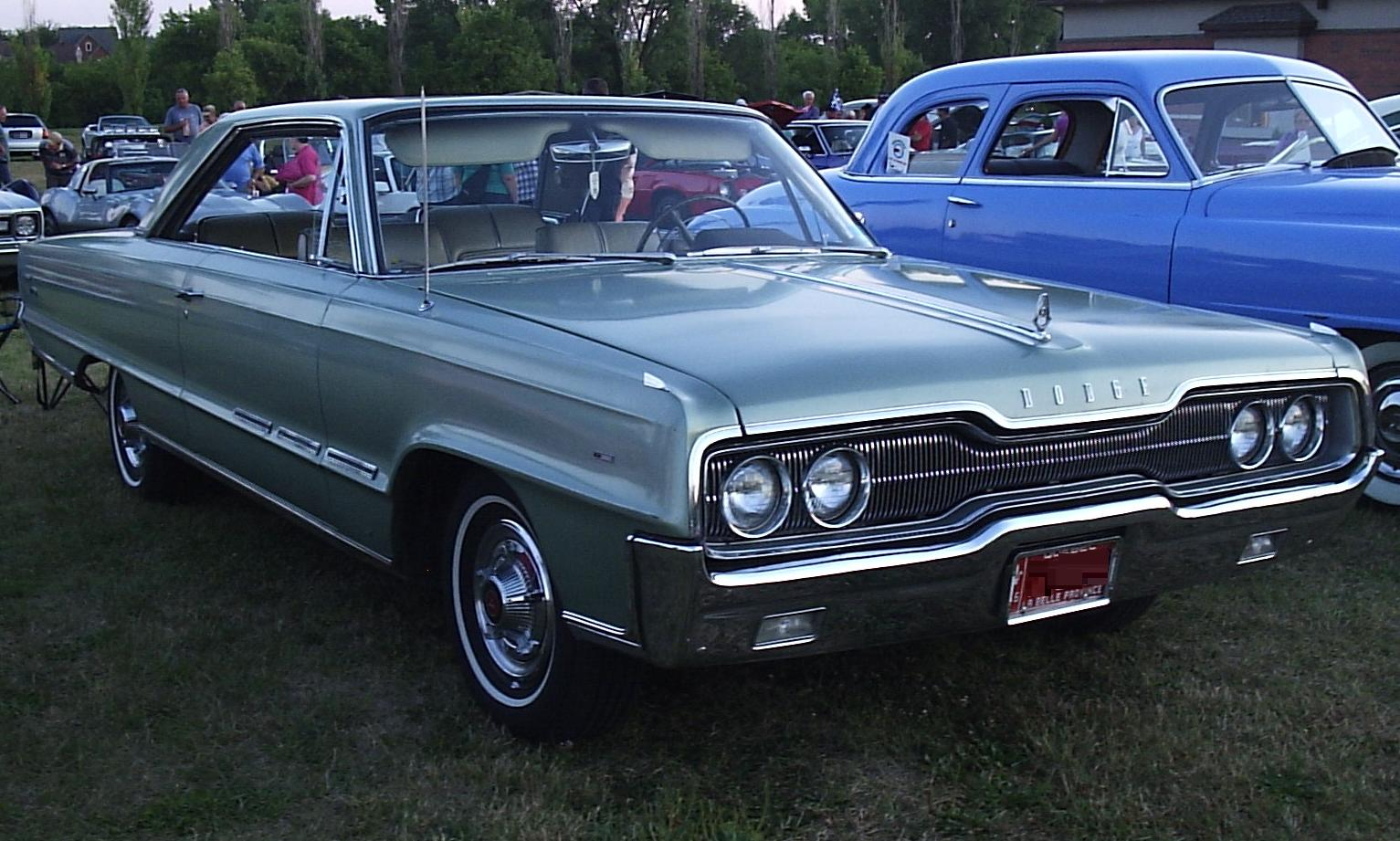 1966 Dodge Polara photographed in Mont St. Hilaire, Quebec, Canada at the Auto classique VAQ Mont St-Hilaire.